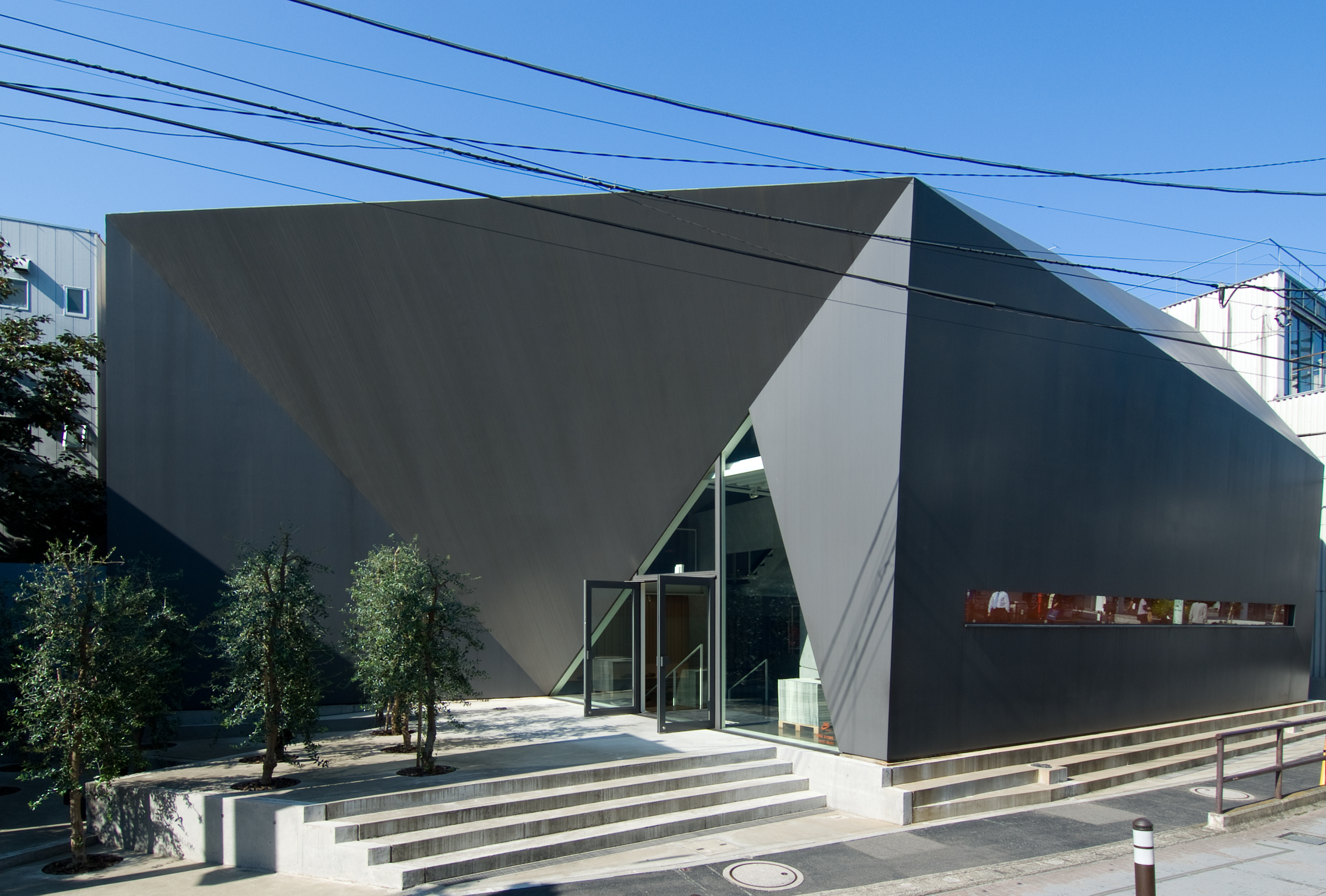 at Harajyuku Tokyo Japan, design by Tadao Ando in 2005.